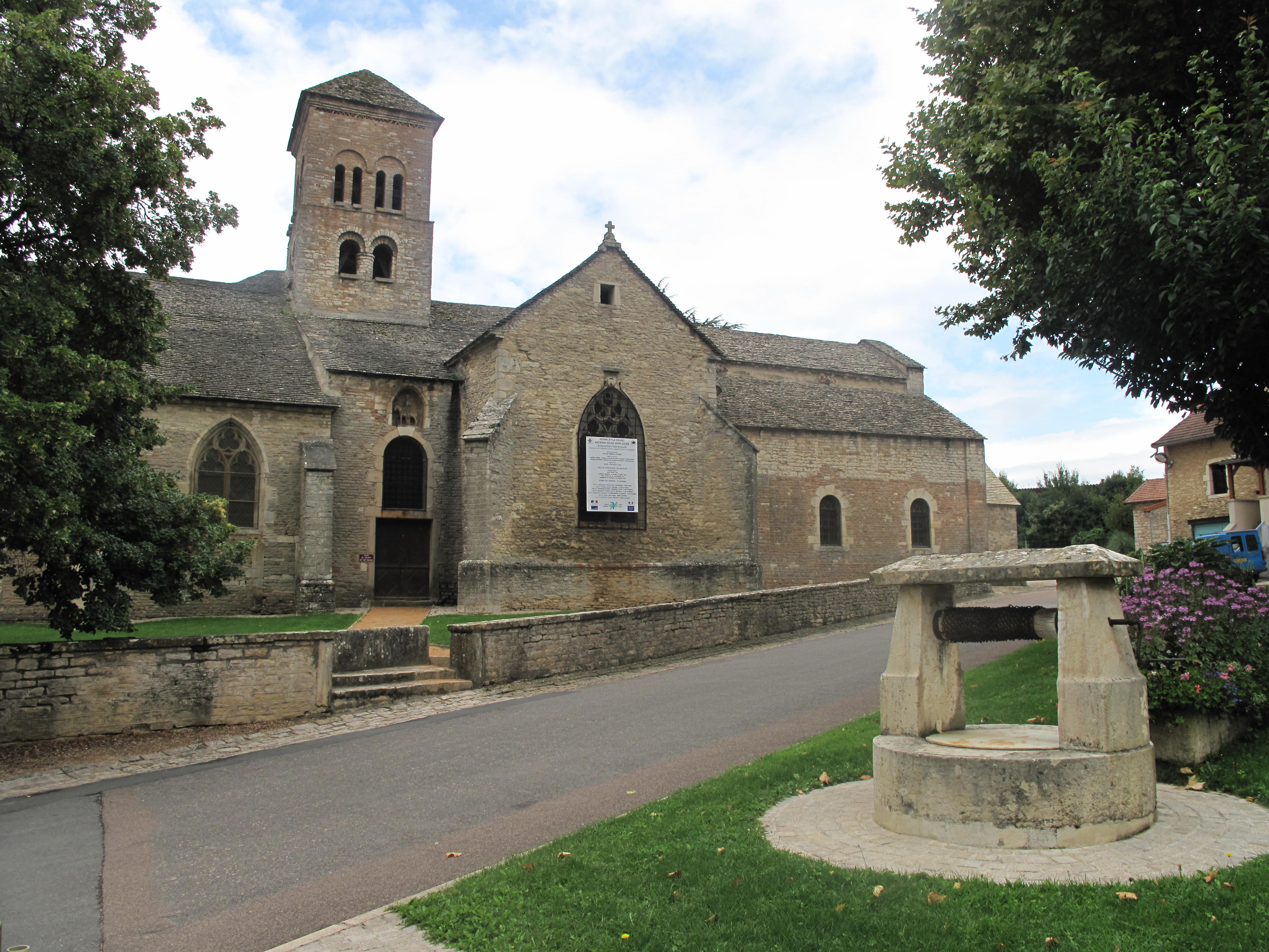 The church of Saint-Julien in Sennecey-le-Grand, Saône-et-Loire, France